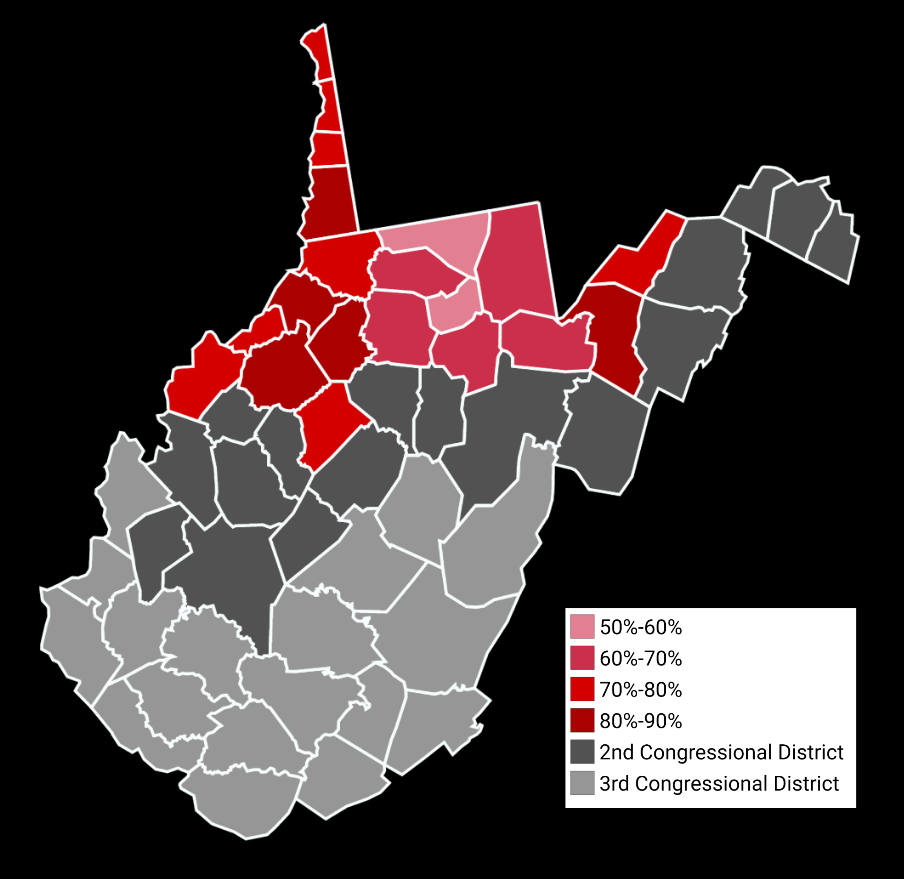 Map showing the results of the 2016 election in West Virginia's first congressional district by County.